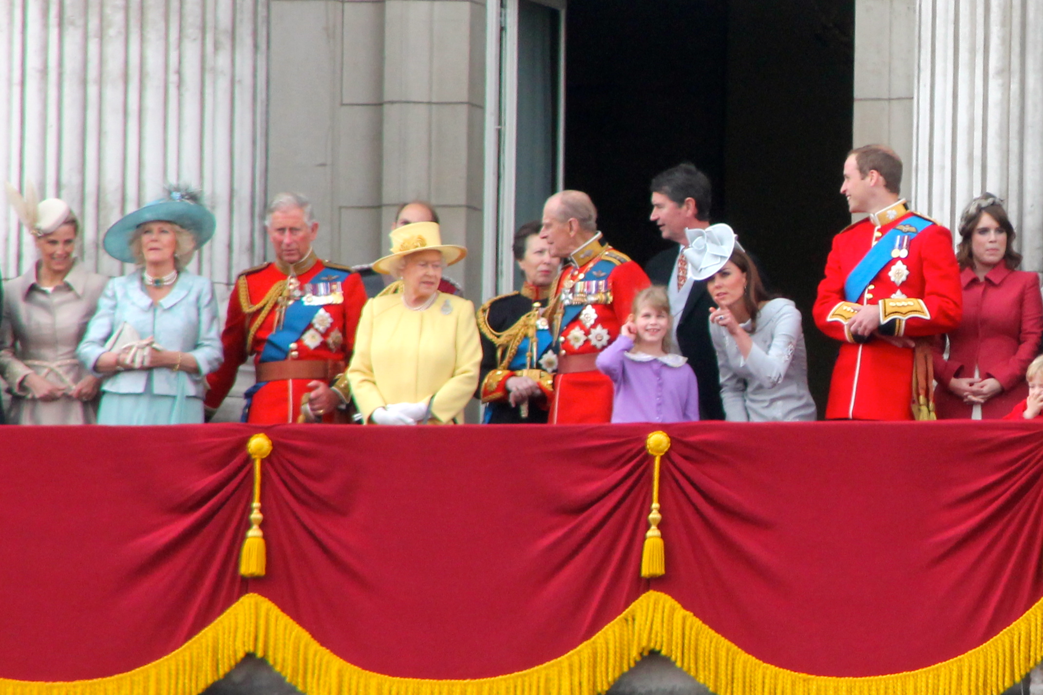 The English Royal Family on the balcony of Buckingham Palace, 16 June 2012